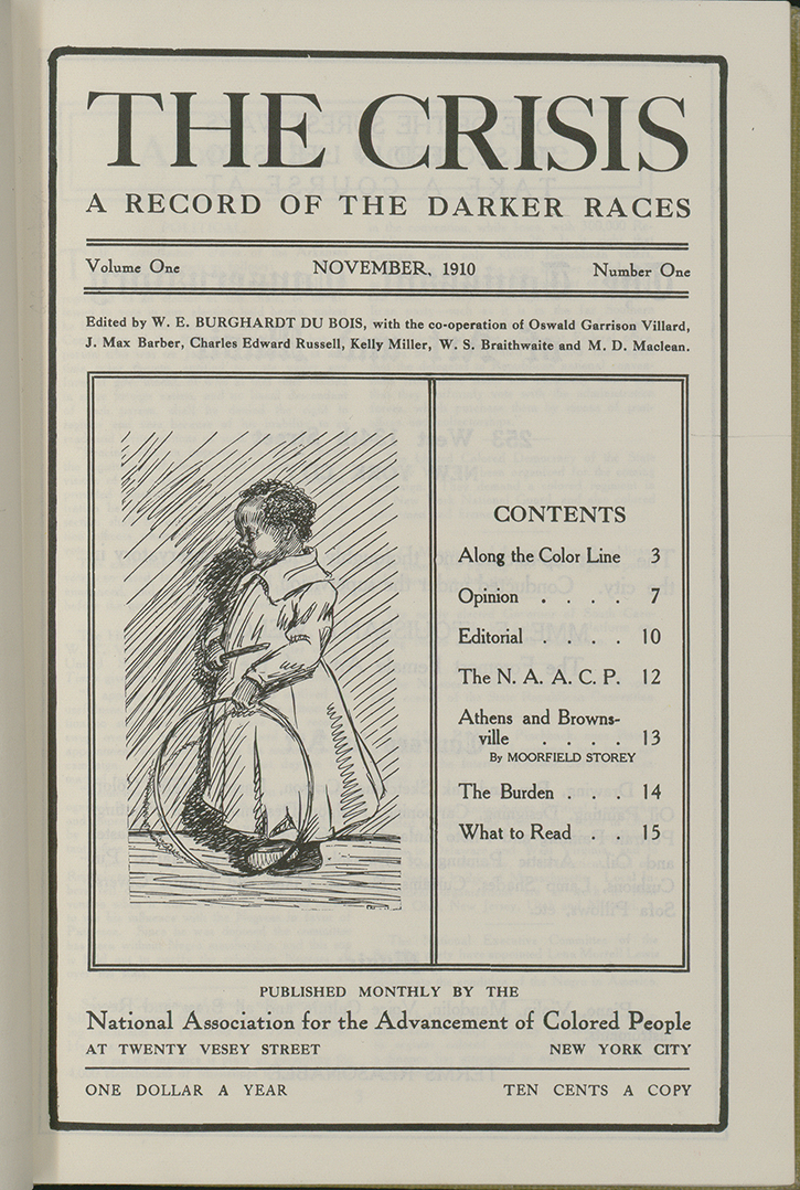 First Issue of -- The Crisis: A Record of the Darker Races, November 1910. New York: NAACP, 1910. [1]